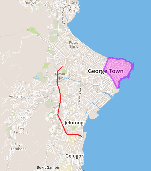 Map of George Town, Penang, with Penang Middle Ring Road marked in red. The purple zone denotes the city's UNESCO World Heritage Site.